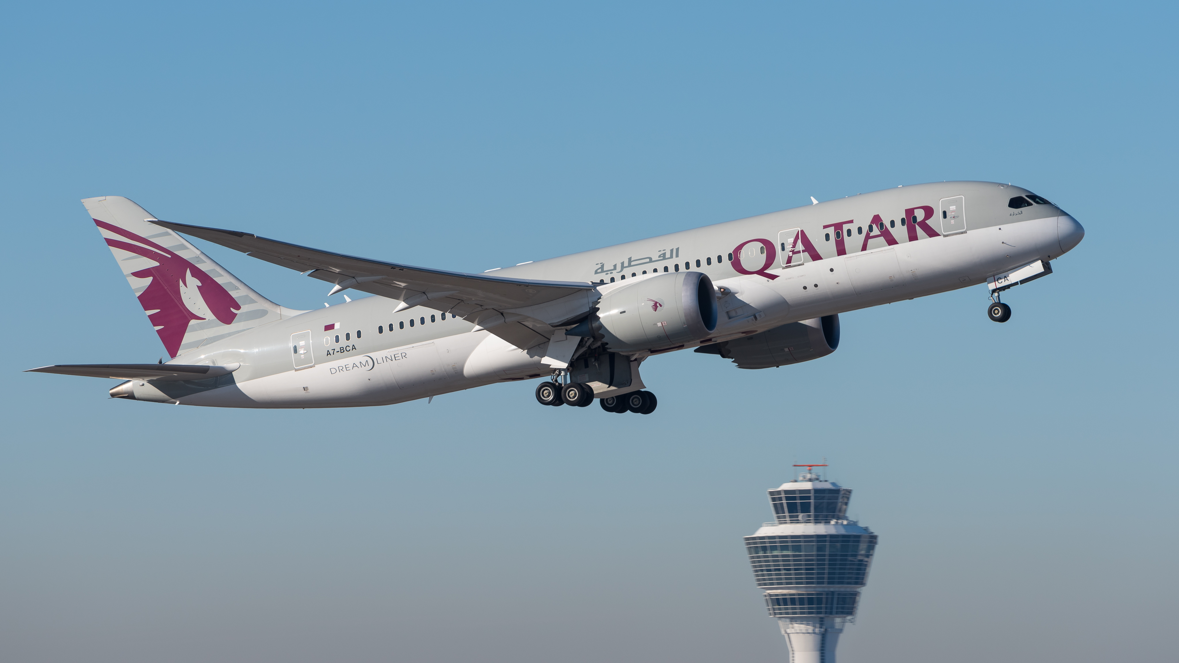 Qatar Airways Boeing 787-8 Dreamliner (reg. A7-BCA, msn 38319/57) at Munich Airport (IATA: MUC; ICAO: EDDM) departing 08R.